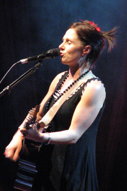 Australian country music artist performing at the Royal Theatre, Canberra